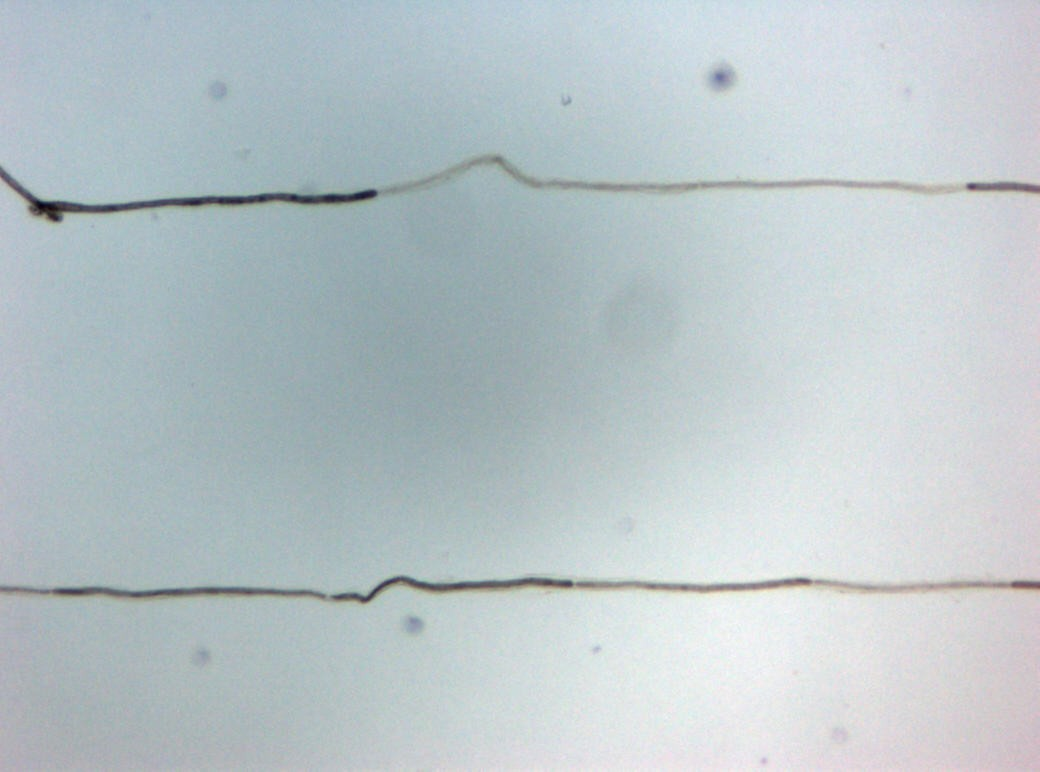 Histopathology of CIPD. Teased single fibre with segmental demyelinisation.